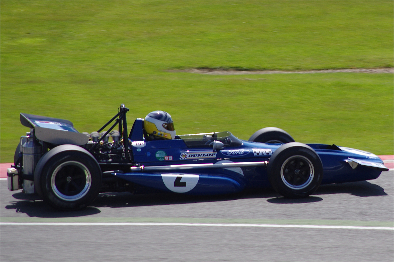 Silverstone Classic, 2012